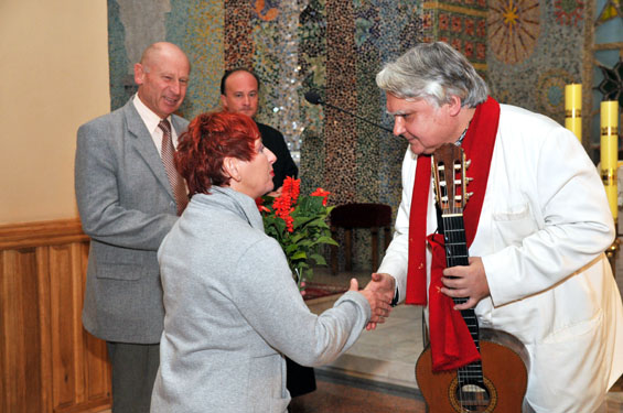 John Oberbek concert in the church of the Assumption of the Blessed Virgin Mary in Krynica-Zdroj for peacekeepers in Lebanon.